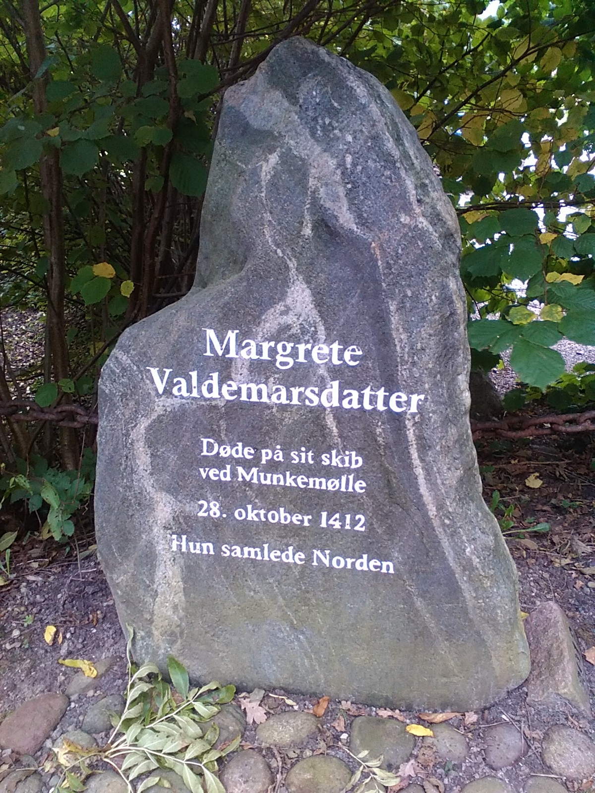 memorial stone for Queen Magrete Valdemarsdatter (Margrethe I. of Denmark) at the Gendarmstien in Munkemølle (danish side of Flensburg Fjord)